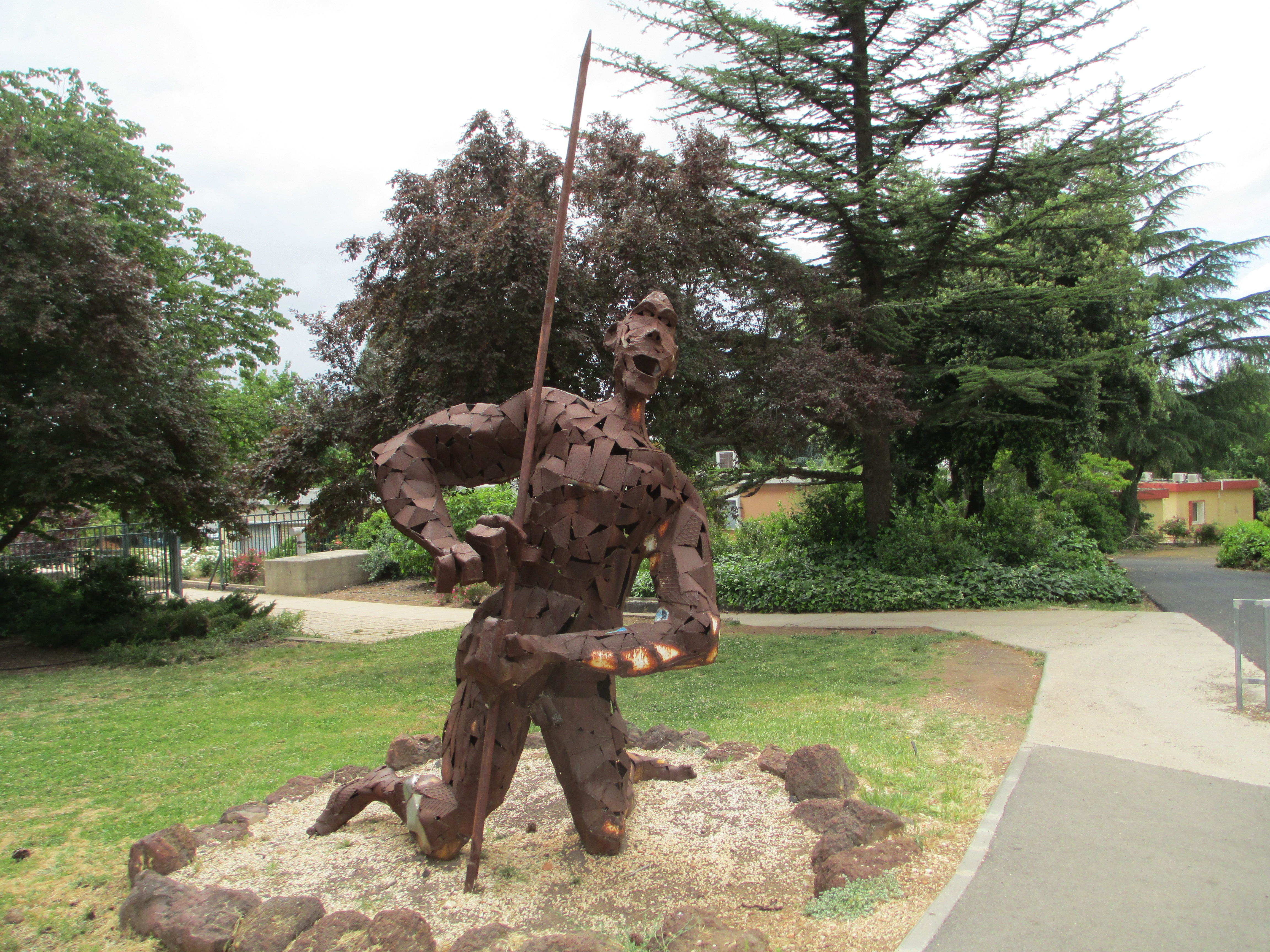 Sculpture by Joop de Jong in Kibbutz Merom Golan